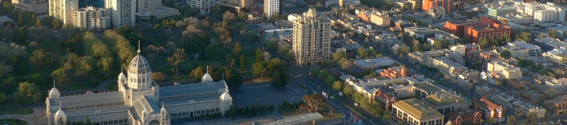 Aerial view of southern Carlton and the Royal Exhibition Building